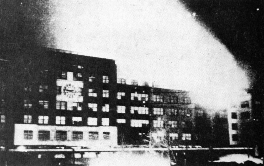 Nagoya Station burning by American firebombing in 19 March 1945.